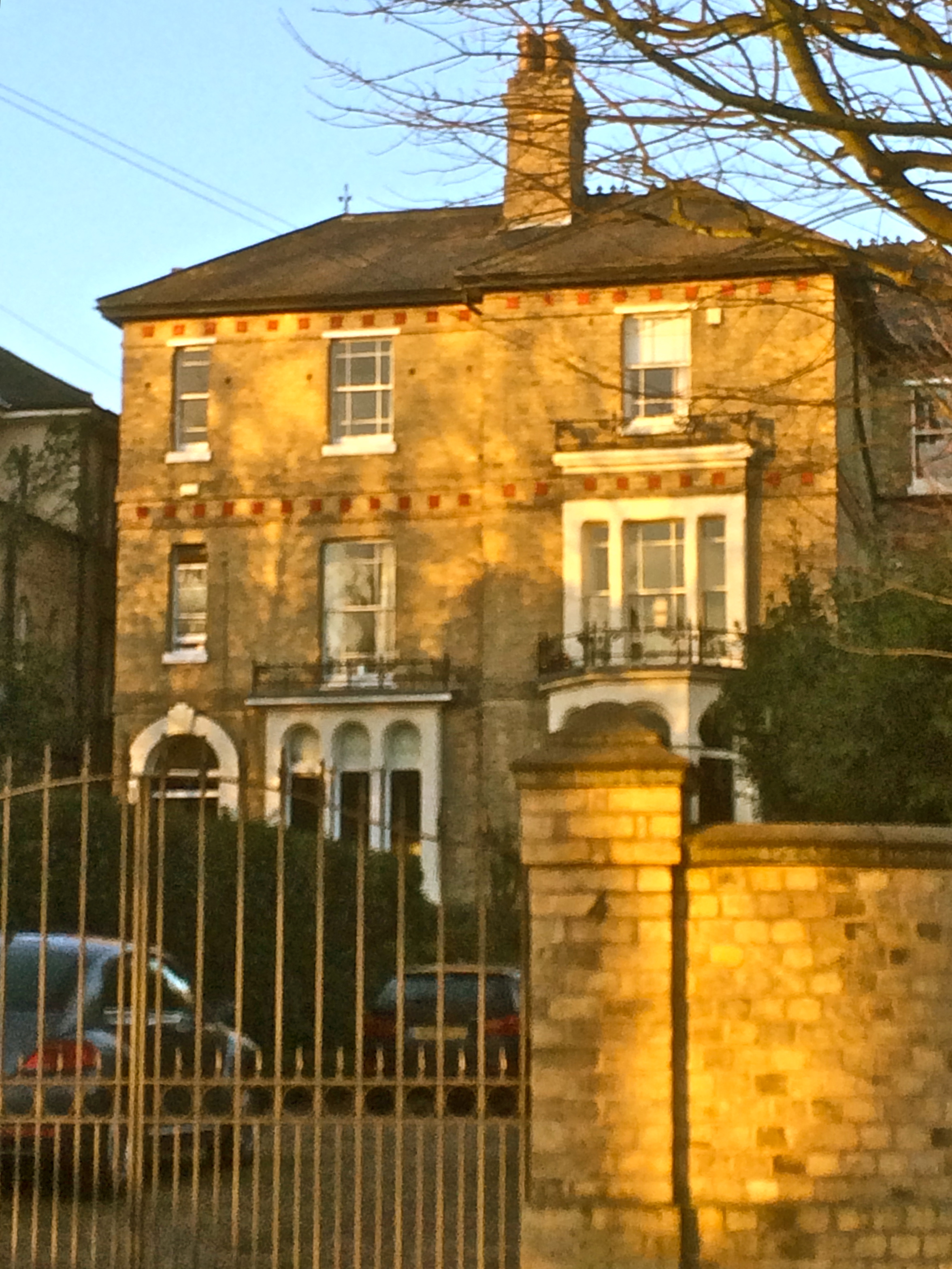 3 & 4 Lindum Terrace, Lincoln. c.1850